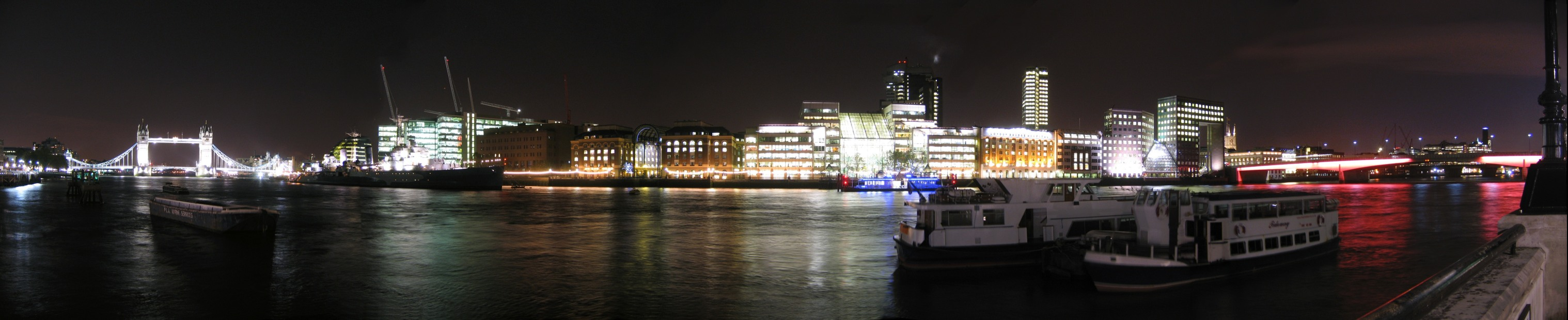 London, riverside of Southwark, view from the northern riverside of the Thames. London, Blick von dem Nordufer der Themse auf das Ufer von Southwark, selbst fotografiert im Okt. 2005